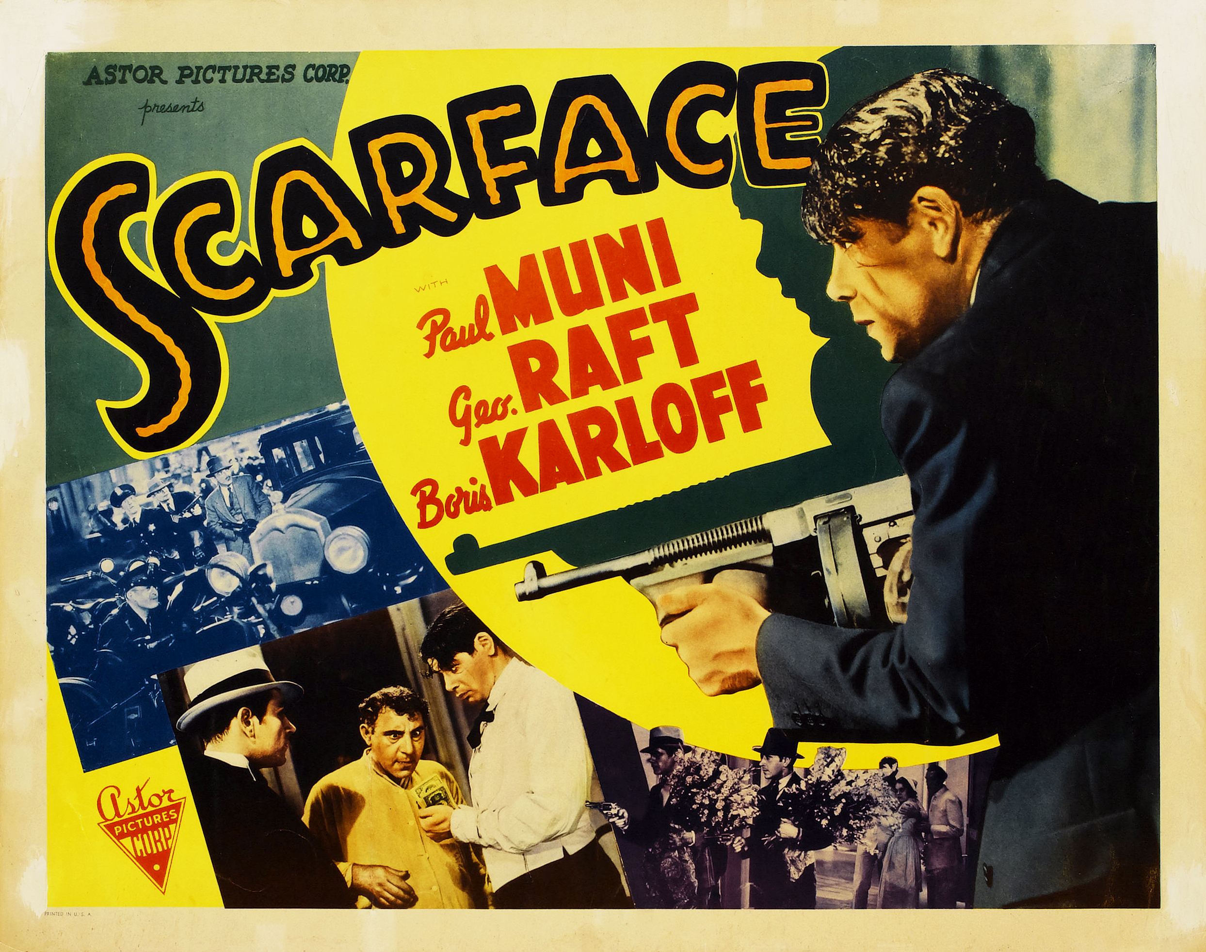 Lobby Card for the 1946 re-release of the film Scarface (1932), directed by Howard Hawks.